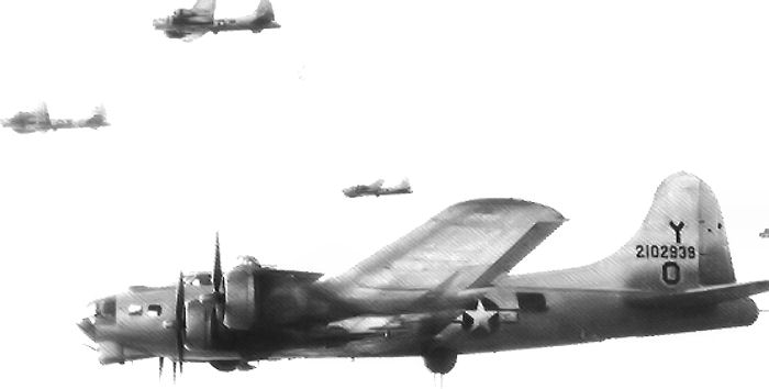 B-17Gs from the 340th Bombardment Squadron head north for Austria in the late summer of 1944. The aircraft closest to the camera (42-102938) was lost in a mid-air collision during the mission to Vienna on 16 March 1944 (USAAF Photograph)